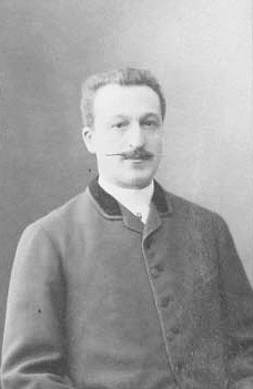 Portrait de Paul Eugène Augustin, Dariste dit Baron d'Ariste, Député des Basses-Pyrénées de 1876 à 1881 et de 1885 à 1889. Photographie extraite de l'ouvrage Chambre des députés 4e législature. Cliché scanné par la Bibliothèque en octobre 2012.